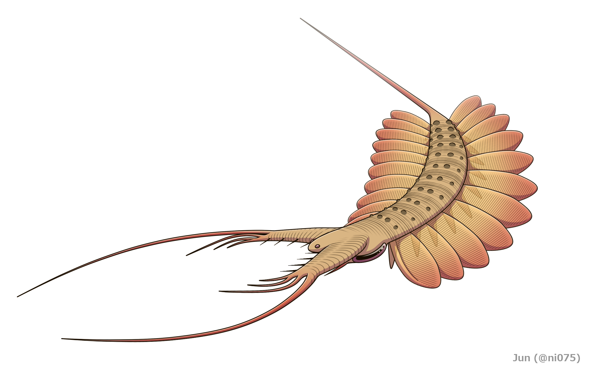 Reconstruction of Kerygmachela kierkegaardi, a cambrian gilled lobopodian (dinocaridid、stem-group arthropod).